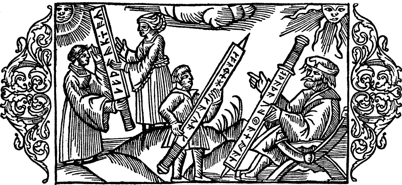 This woodcut shows a father teaches his son and a mother teaches her daughter how to use and read rune staffs.